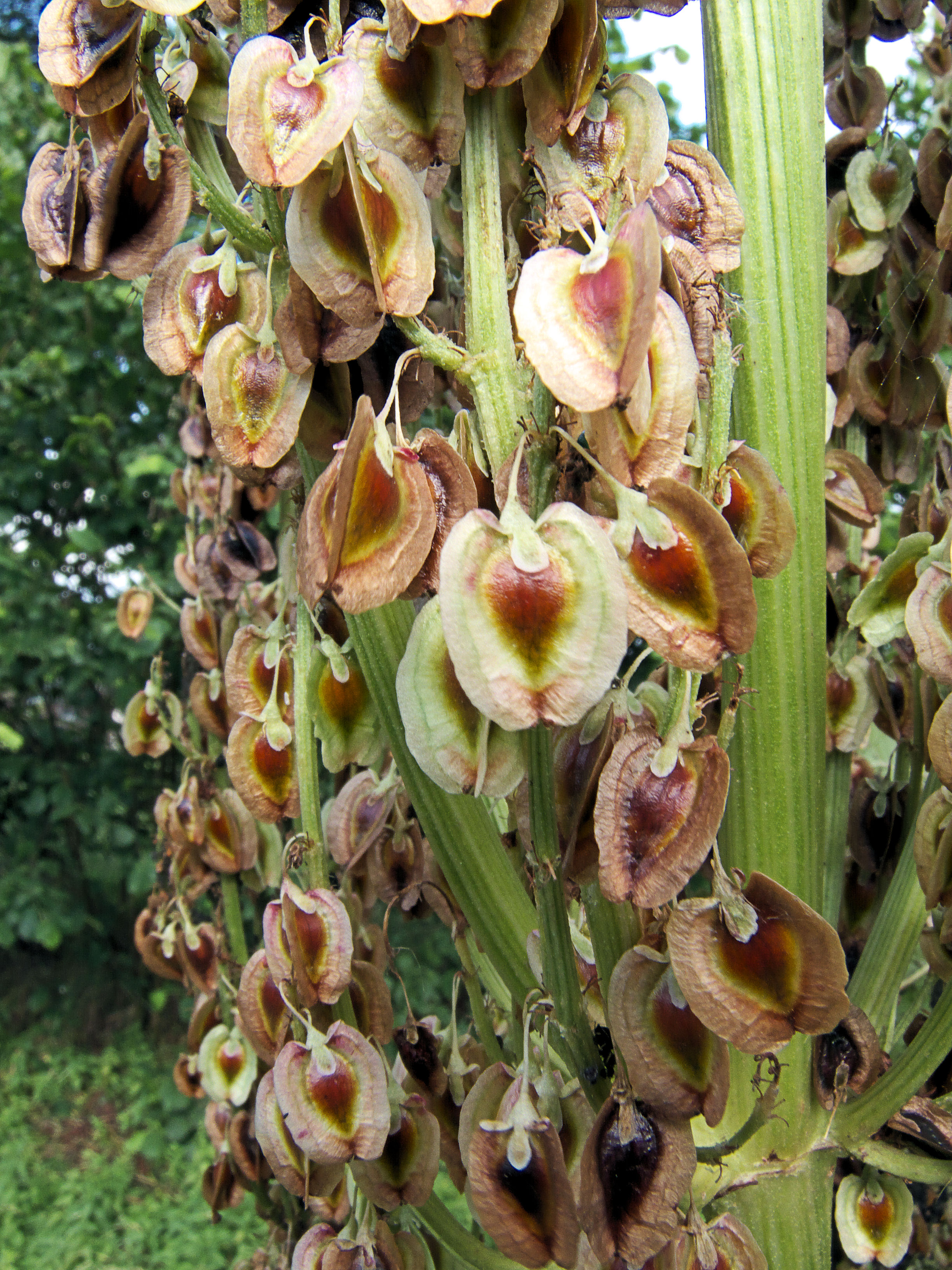 Rheum rhabarbarum fruits